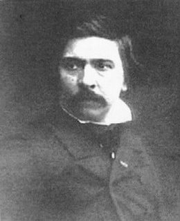 Photo of French painter Thomas Couture